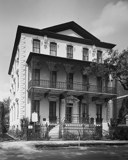 John Rutledge House (Charleston) (cropped)